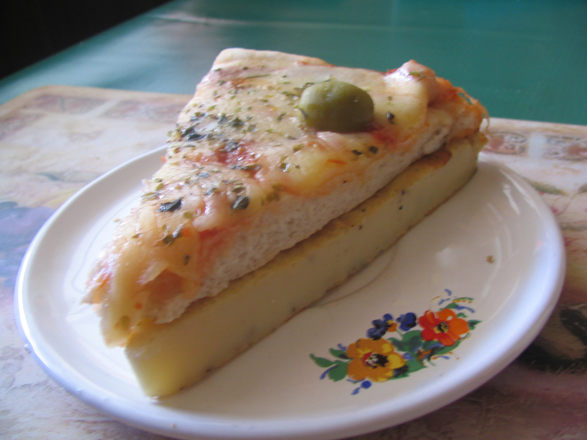 This is how an Argentine eats pizza - served over an identically sized slice of fainá.